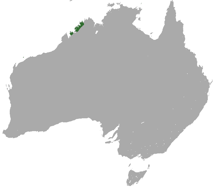 Golden Bandicoot (Isoodon auratus) range